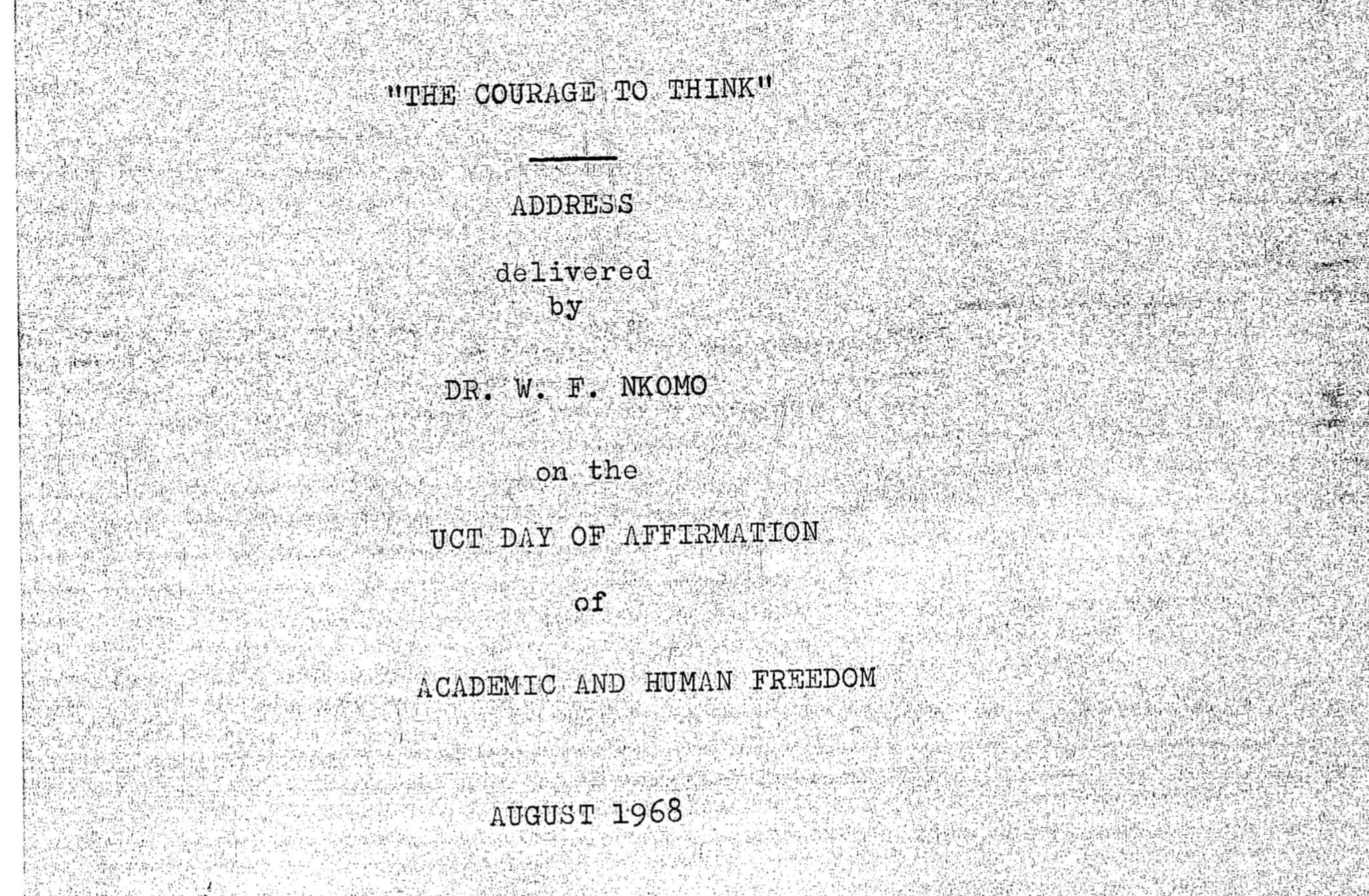 Scanned copy of speech by WF Nkomo at UCT in 1968